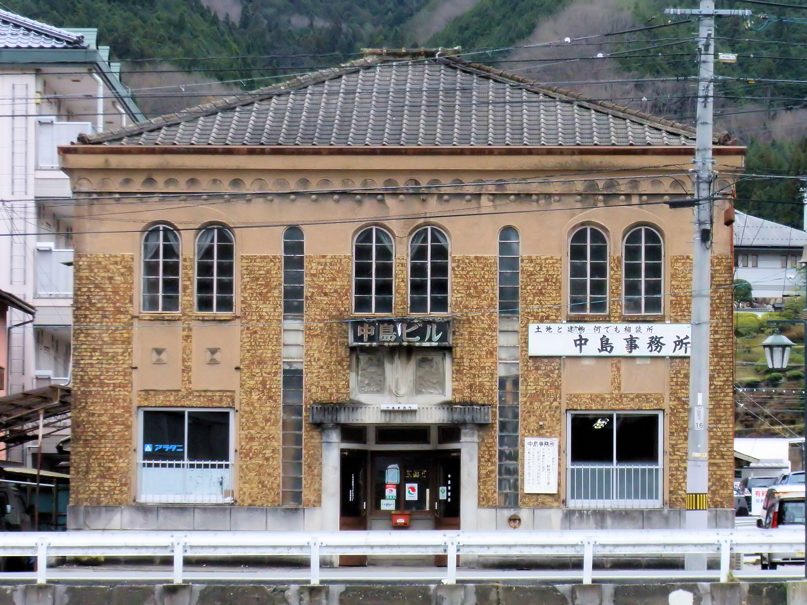 Old Niimi post office, Niimi, Okayama.